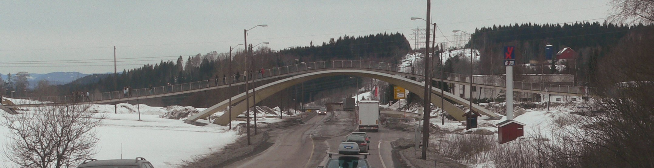 Leonardo Da Vinci's bridge design for the Golden Horn, recreated as a pedestrian crossing in a much smaller scale in Ås, Norway, by Vebjørn Sand.